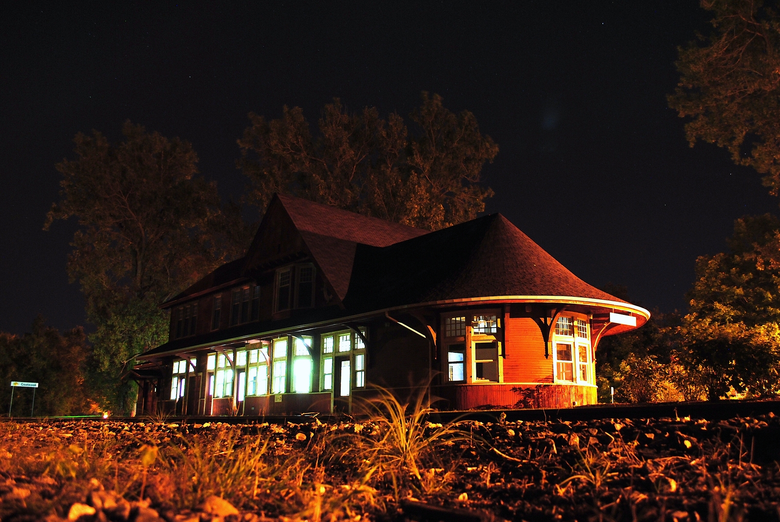 View of the Vieille Gare de Coaticook old train station in Coaticook (Québec), Canada. Construction completed in 1904. Canada's Historic Places, site number 8246.